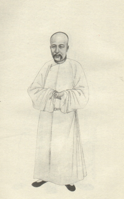 KANG Youwei, politician and scholar of the late Qing Dynasty.